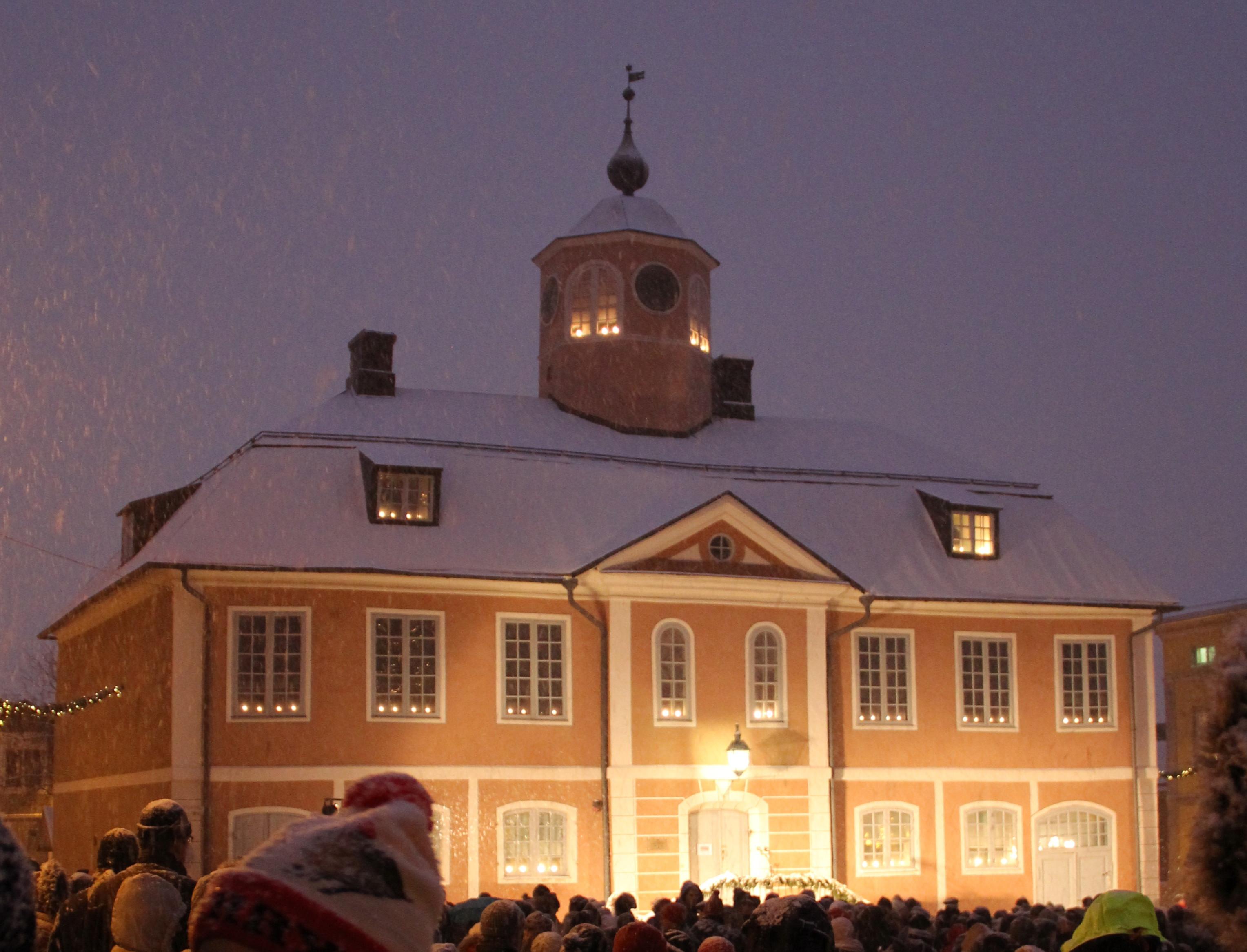 Declaration of Christmas Peace in 2014 in Porvoo, Finland. -The event is about to begin soon in front of the old town hall.